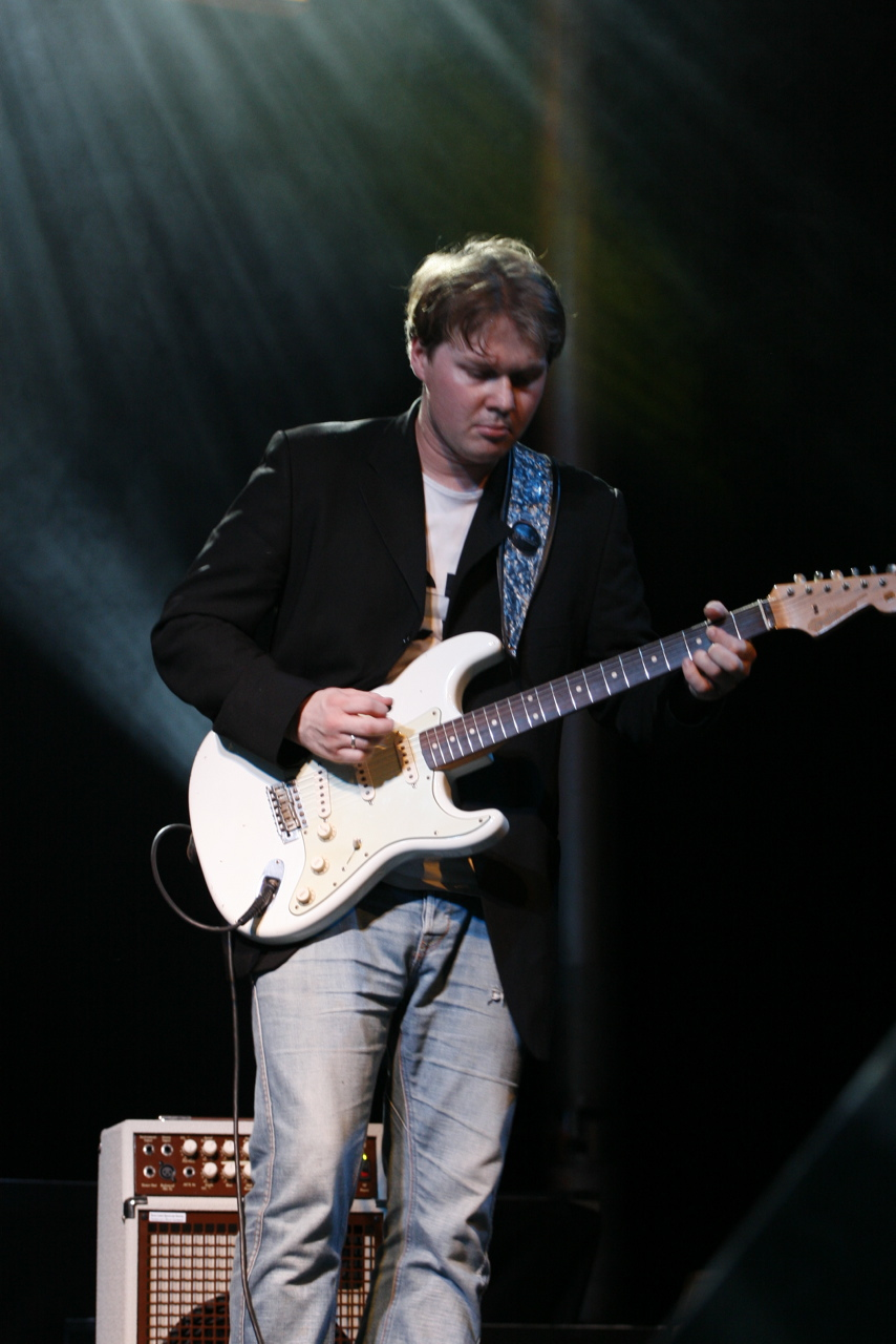 Ramon Goose performing at the NuBlues Jazz Festival, Frankfurt, Germany, on electric guitar